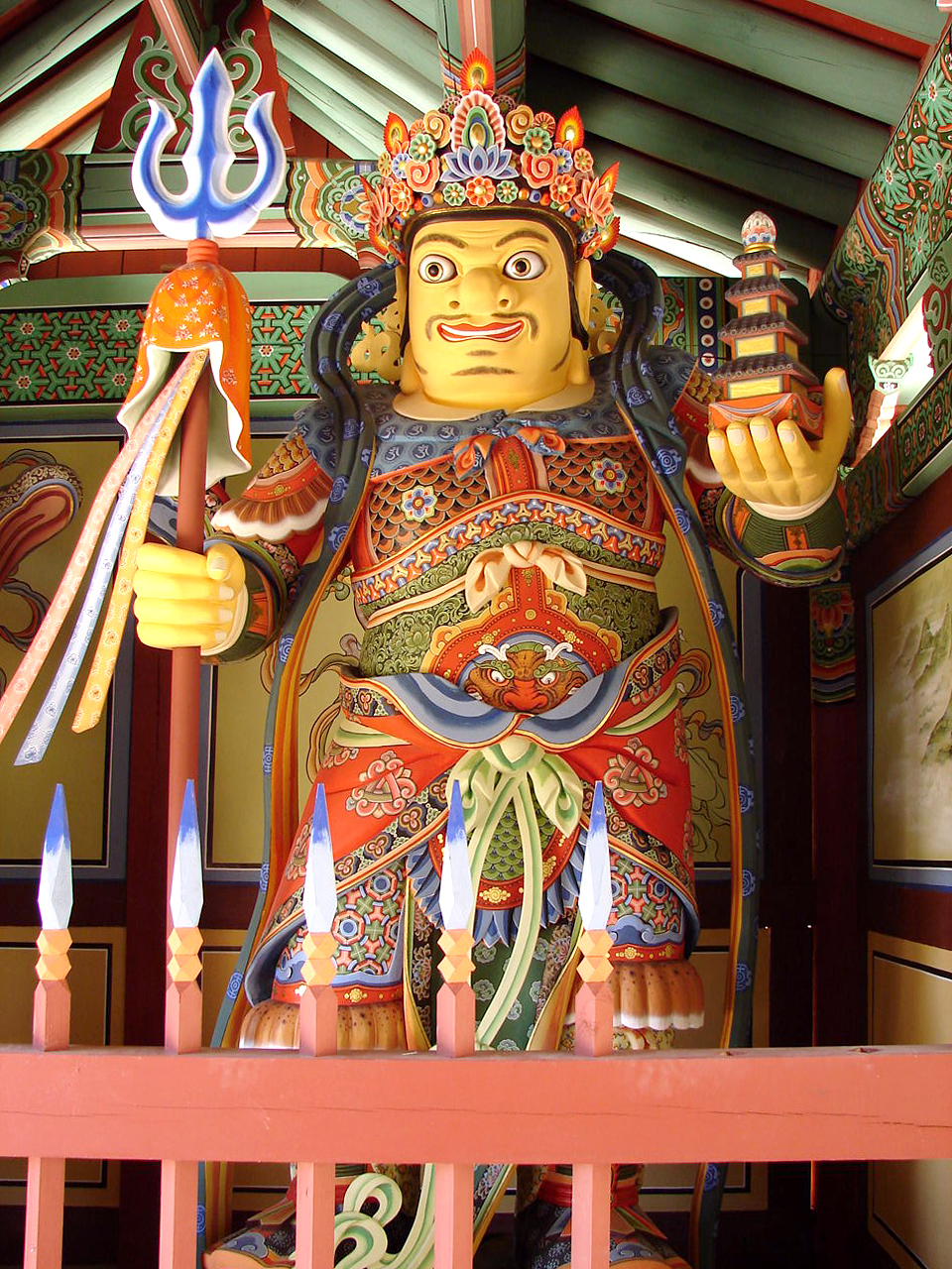 Ssangbongsa, or Ssangbong Temple (Ssang means 'twin' and Bong means 'peak' ), derives its name from the pair of twin peaks on the mountain behind this Buddhist temple. Ssangbongsa in located in Hwasun County, South Jeolla Province, South Korea. Ssangbongsa was built by Zen Priest Cheolgam in 868 during the Unified Silla Period.